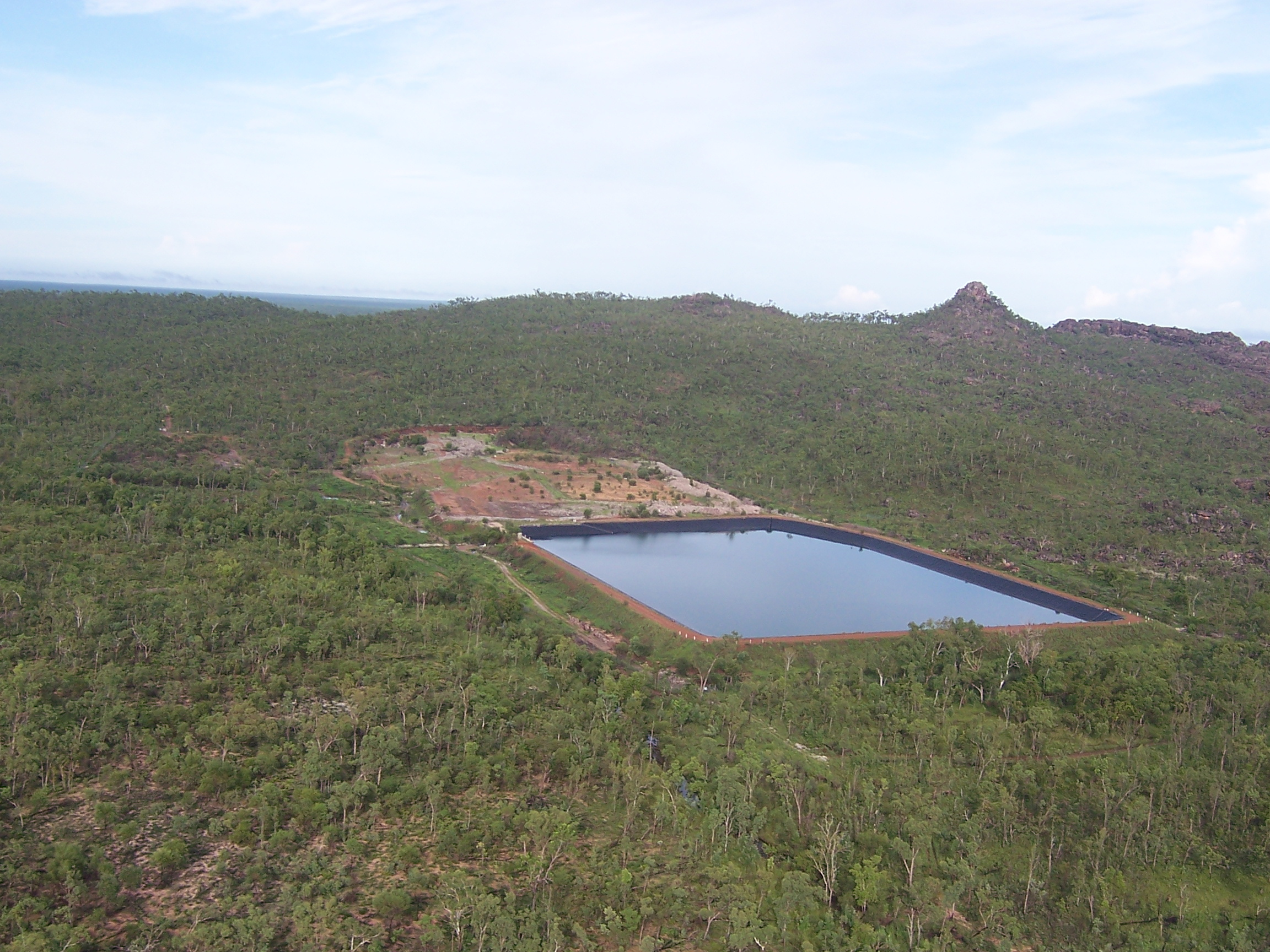 Jabiluka Uranium Mine as seen from an Airvan aircraft. The large pond is the "Jabiluka Total Retention Pond" and the entry to the shaft is visible at the far edge of the cleared area.